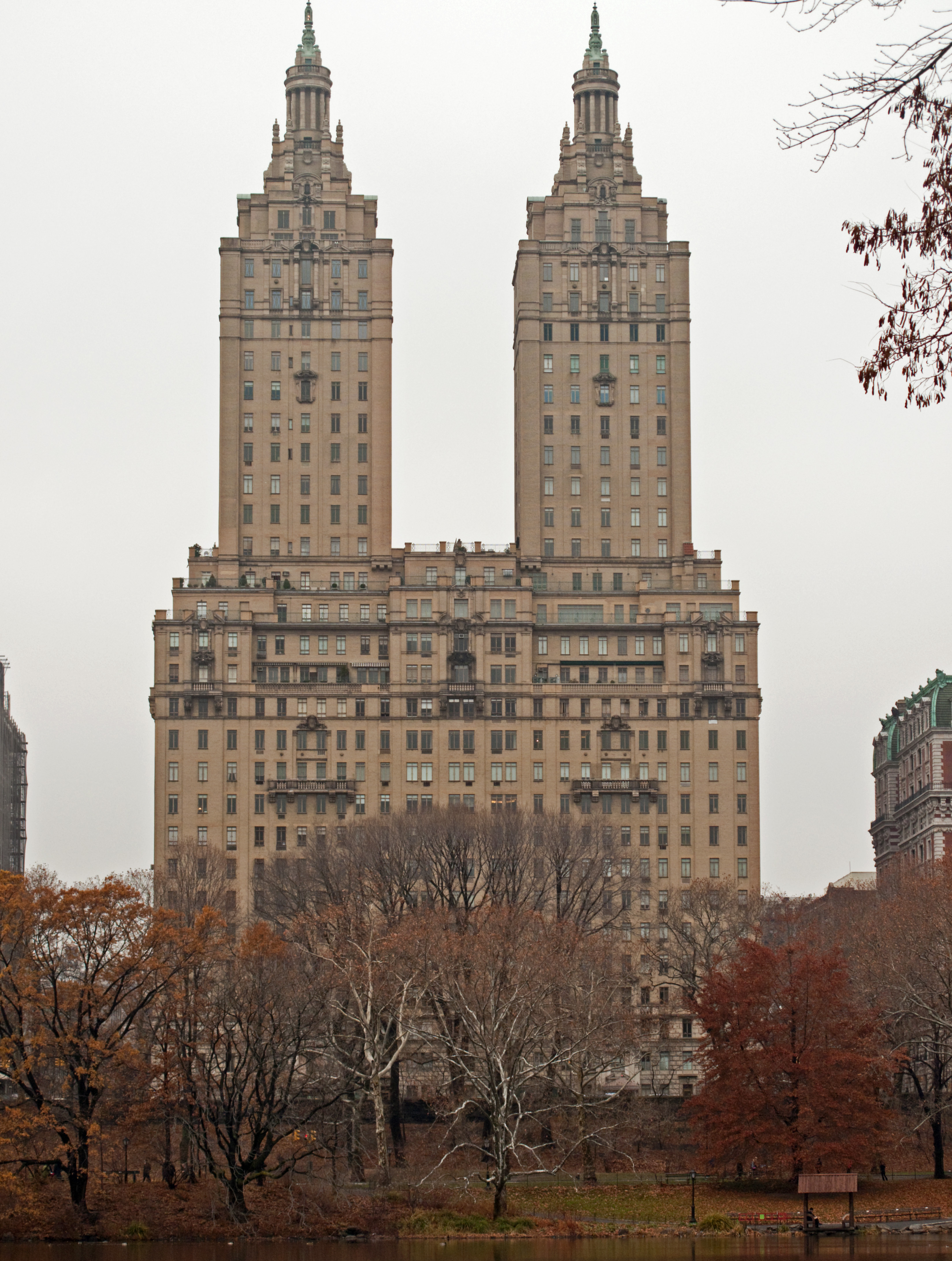 The San Remo apartments, viewed from Central Park on a rainy December day. (Yes, the weather was as awful as it looks.)